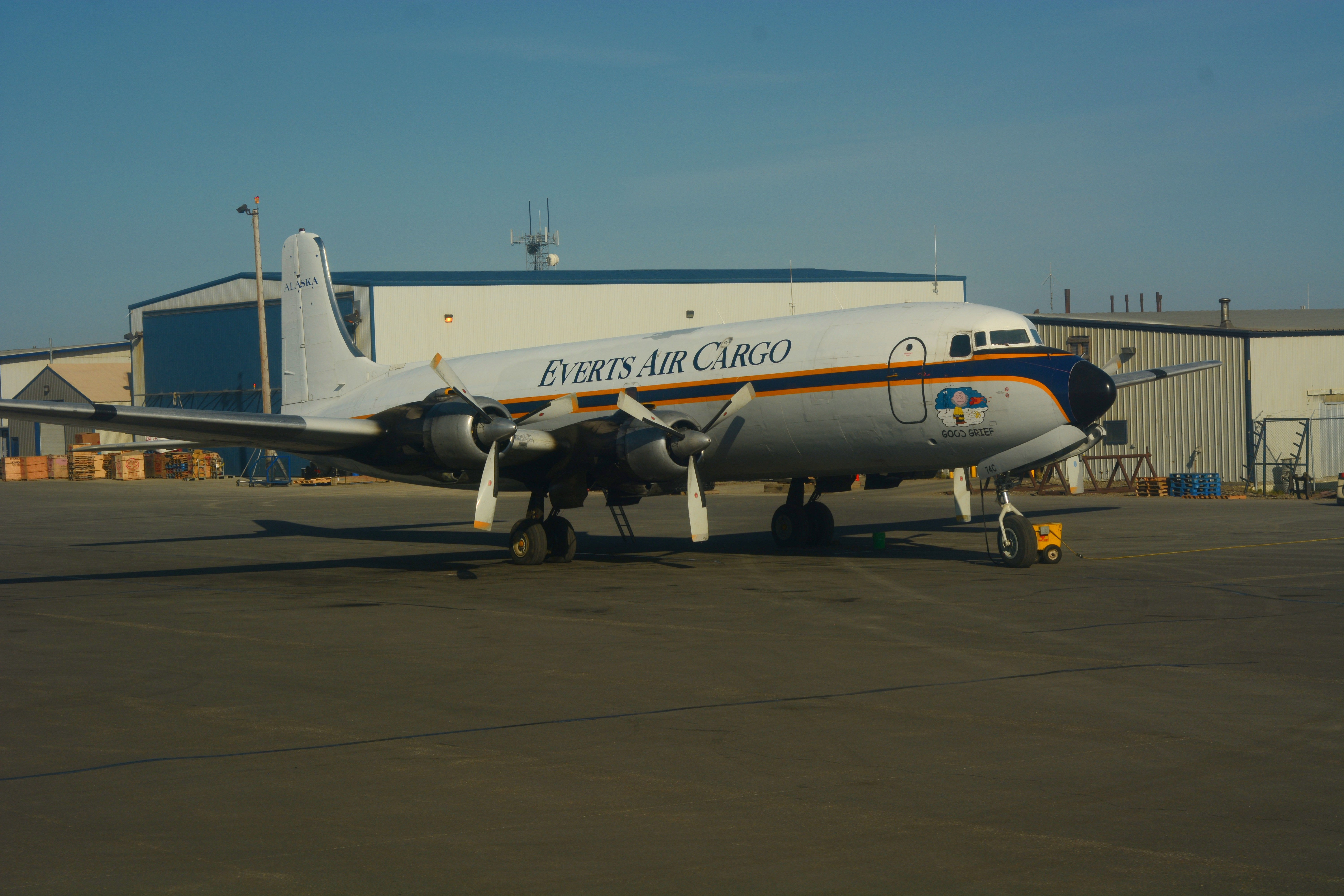 A DC-6 of Everts Air Cargo, photographed at Deadhorse Airport (SCC) in northern Alaska, 2 July 2016. From the markings on the nose gear door this seems to be aircraft N6174C, a DC-6A built in 1954.